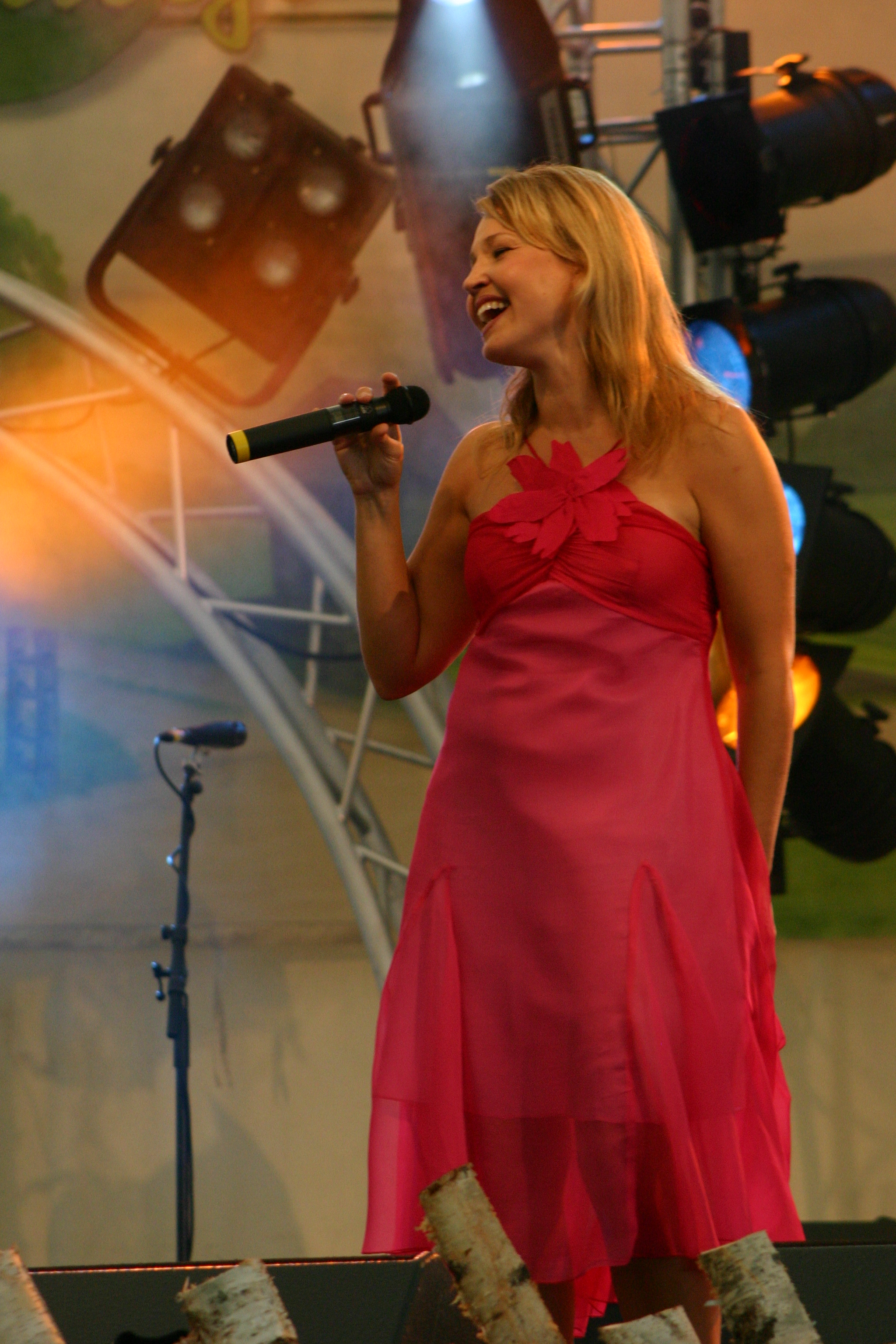 Marita Taavitsainen in Vihreät Niityt music festival in the summer 2004.